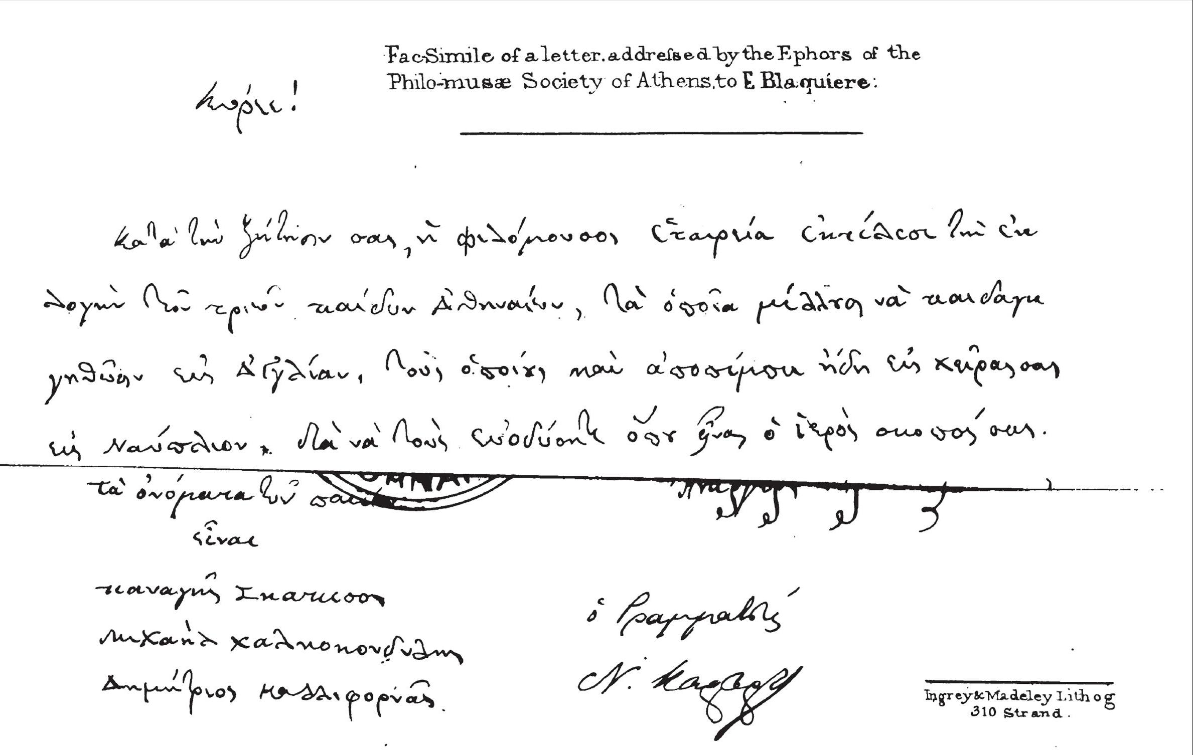 Letter of the Philomousos Society Φιλόμουσος Εταιρεία Αθηνών του Edward Blaquière